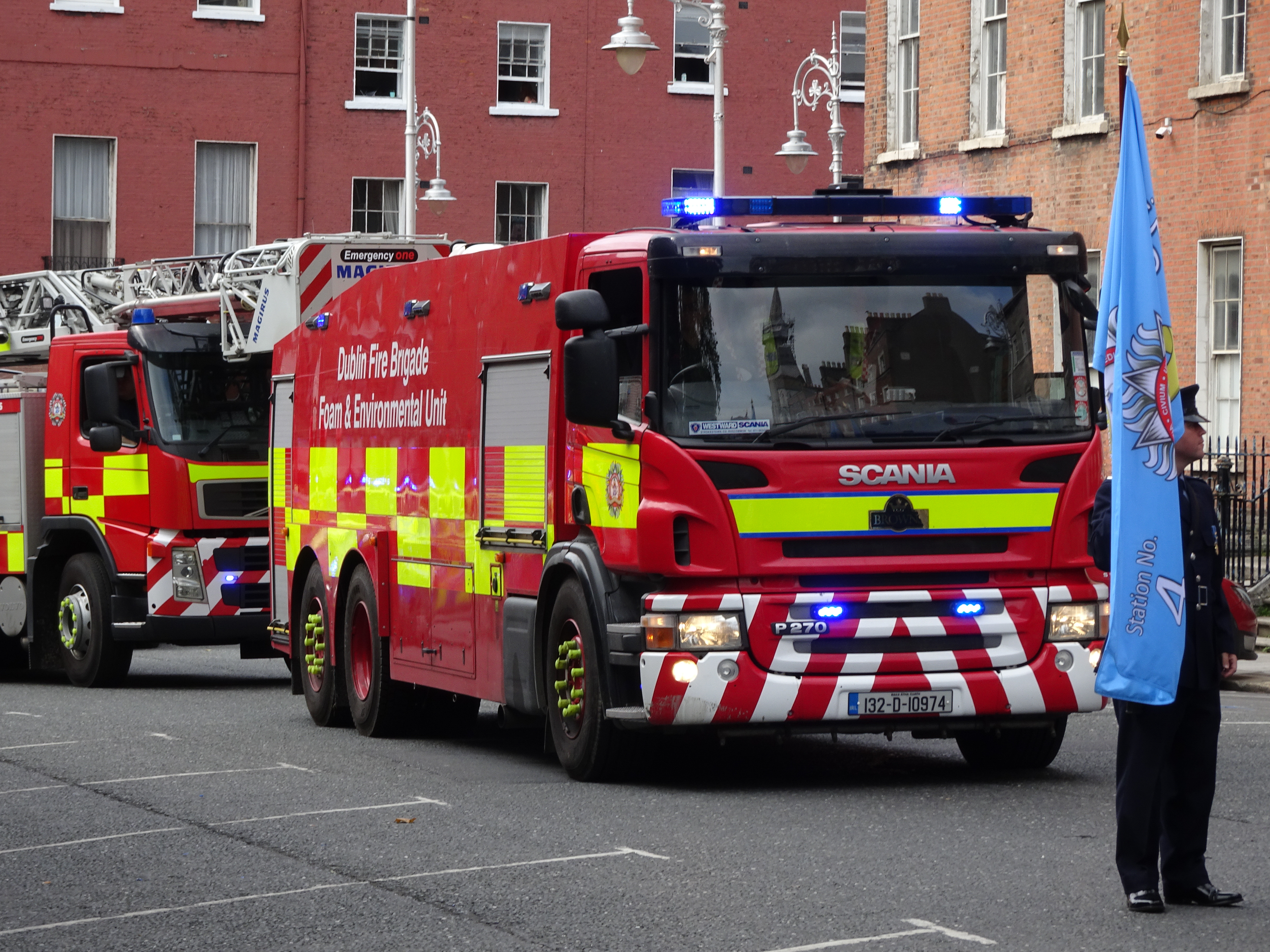 Today there was a day of action in Dublin to honour the country's emergency services but as you can see from my photographs the even included many other services including Customs officers and their sniffer dogs. After photographing the "National Services Day" parade at North Parnell Square I decided to visit the Botanic Gardens but to get there I needed to go to Broadstone in order to get a bus to Glasnevin. While waiting at the bus stop I had a conversation with a nun who told me that there must have been a major disaster because the city centre was full of fire engines and ambulances. As already mentioned I purchased a Sony HX-90V because it has GPS capability and today was my first opportunity to experiment with the camera. Much to my surprise GPS works well but I really dislike the viewfinder and many other aspects of the camera but I can't really complain as I paid less than Euro 300. However, I must admit that I was a bit upset when I discovered that it does not shoot RAW.